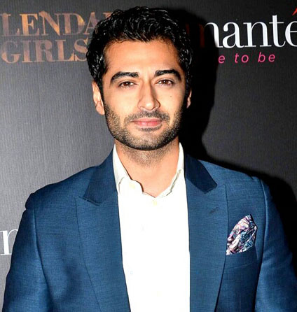 Harshad Arora at Amante Fashion show